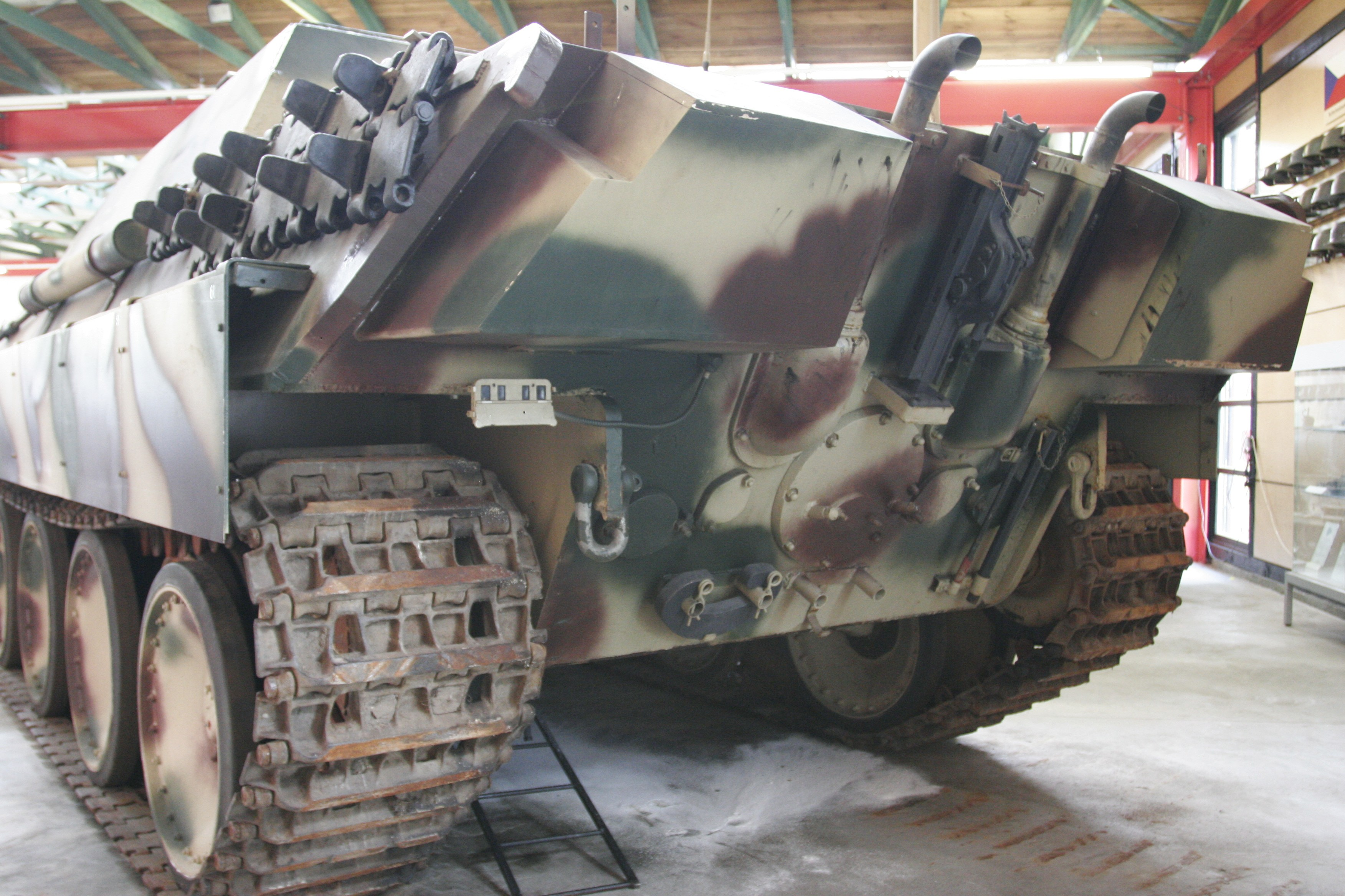 Panzerbefehlswagen V "Panther(Command tank)" Ausf.A (Sd.Kfz. 267) / Back on display at the Deutsches Panzermuseum Munster, Germany.